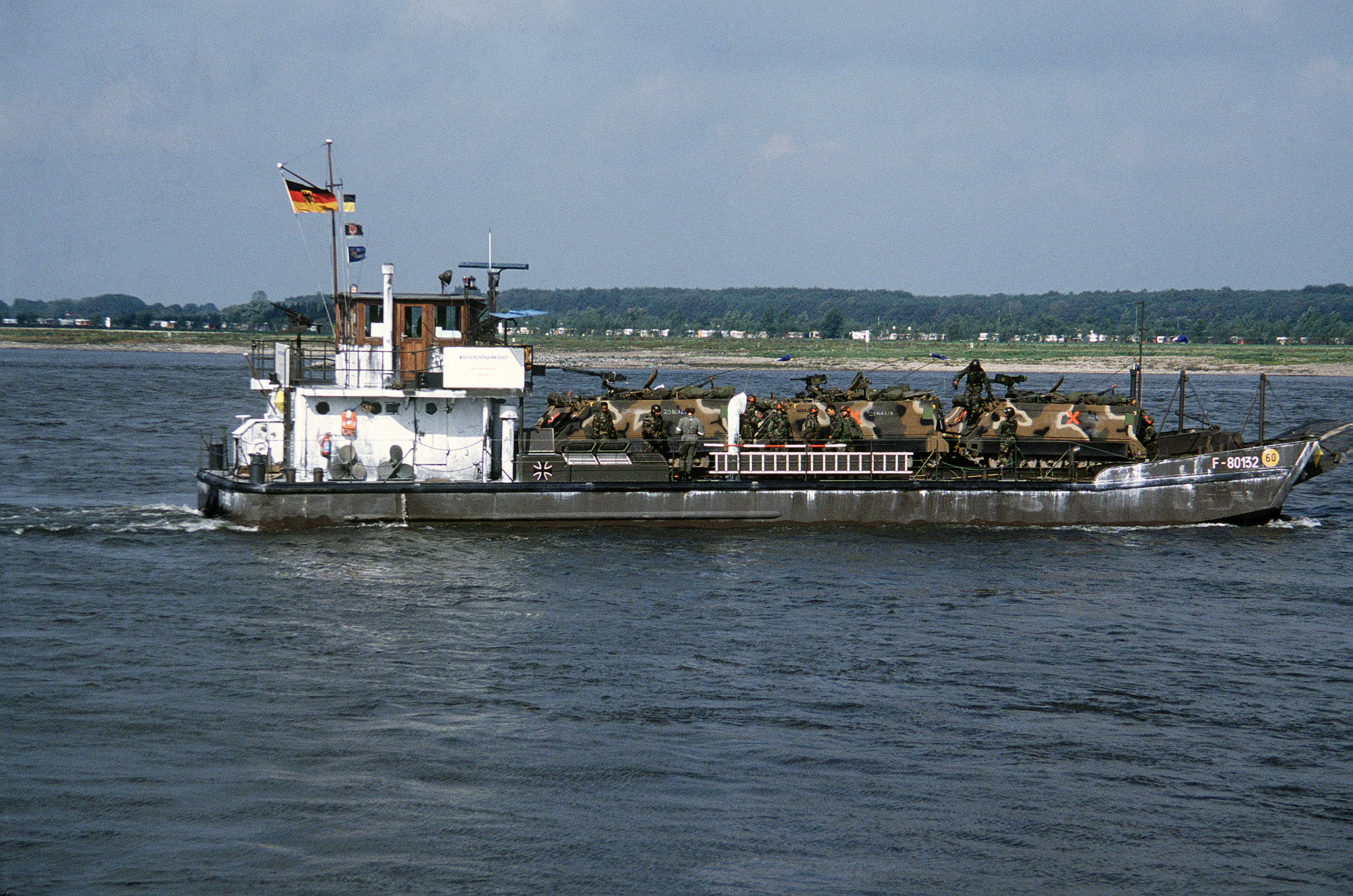 Starboard beam view of a West German Army utility landing craft transporting US soldiers and M113 armored personnel carriers across the Rhine River during Exercise REFORGER '83. This craft was taken over from the U.S. Navy Rhine River Patrol.